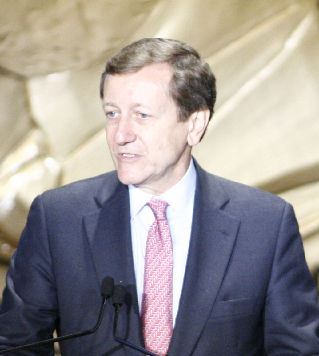 American journalist Brian Ross at the 66th Annual Peabody Awards, New York City.